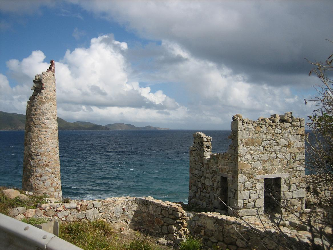 Photograph of the ruins at Copper Mine point, Virgin Gorda, British Virgin Islands (December 2006)